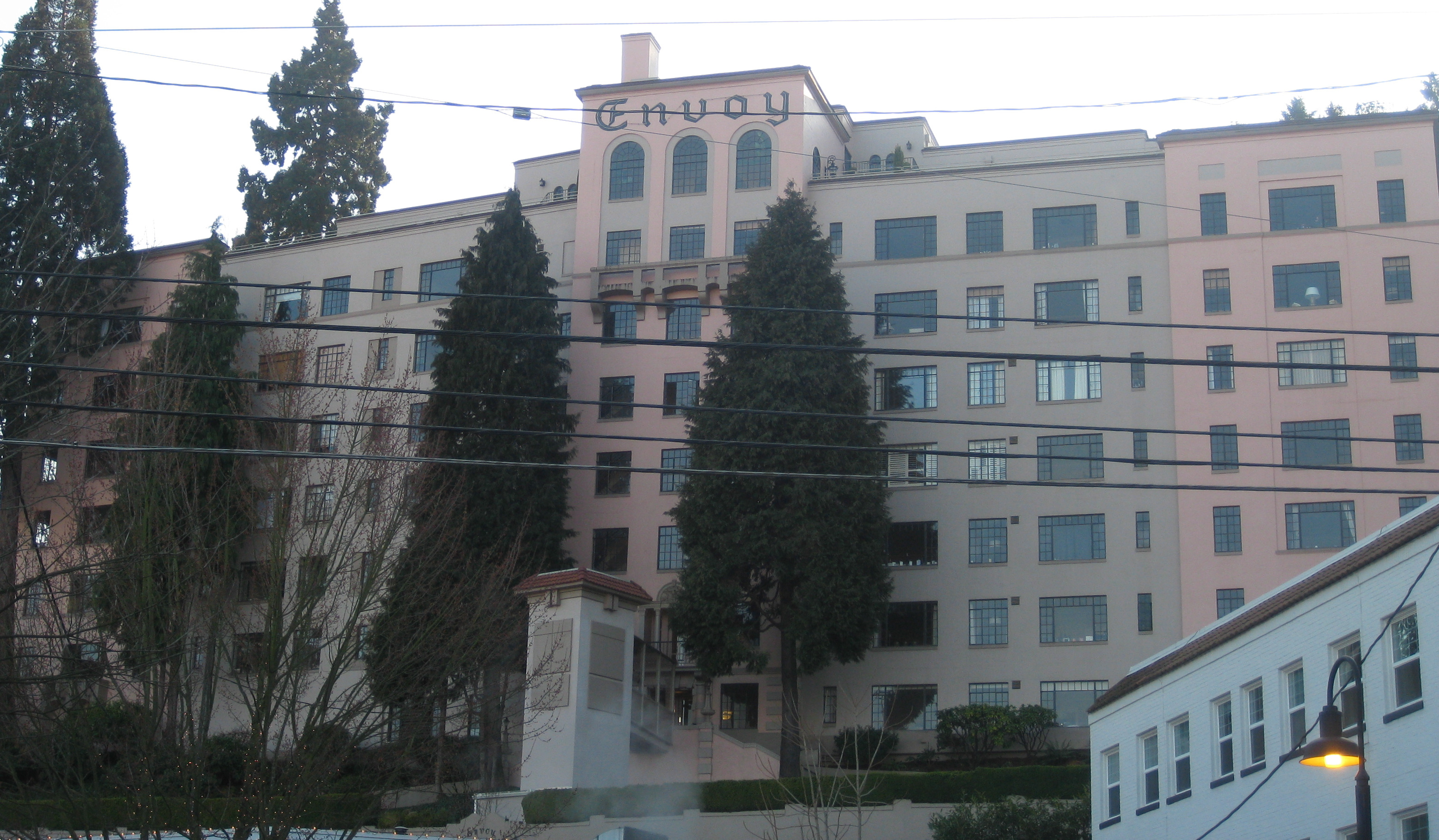 The historic Envoy Apartment Building (built 1929) located at 2336 SW Osage Street in Portland, Oregon, United States, is listed on the US National Register of Historic Places (NRHP). NRHP reference number 88000093